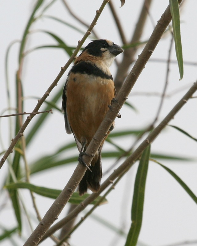 Rusty-collared Seedeater (Sporophila collaris) at Esteros del Iberá, Argentina.